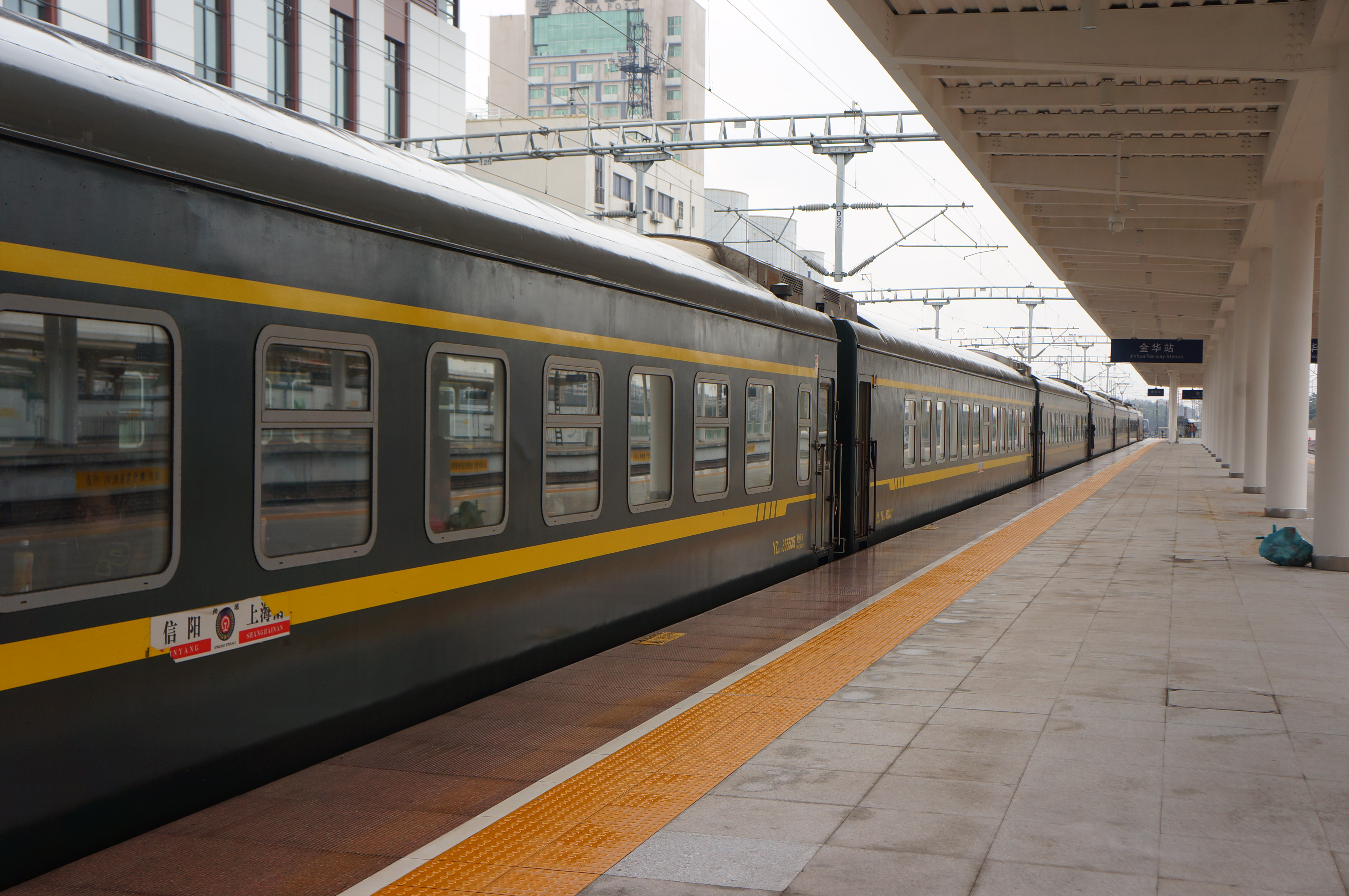 Shanghainan to Xinyang